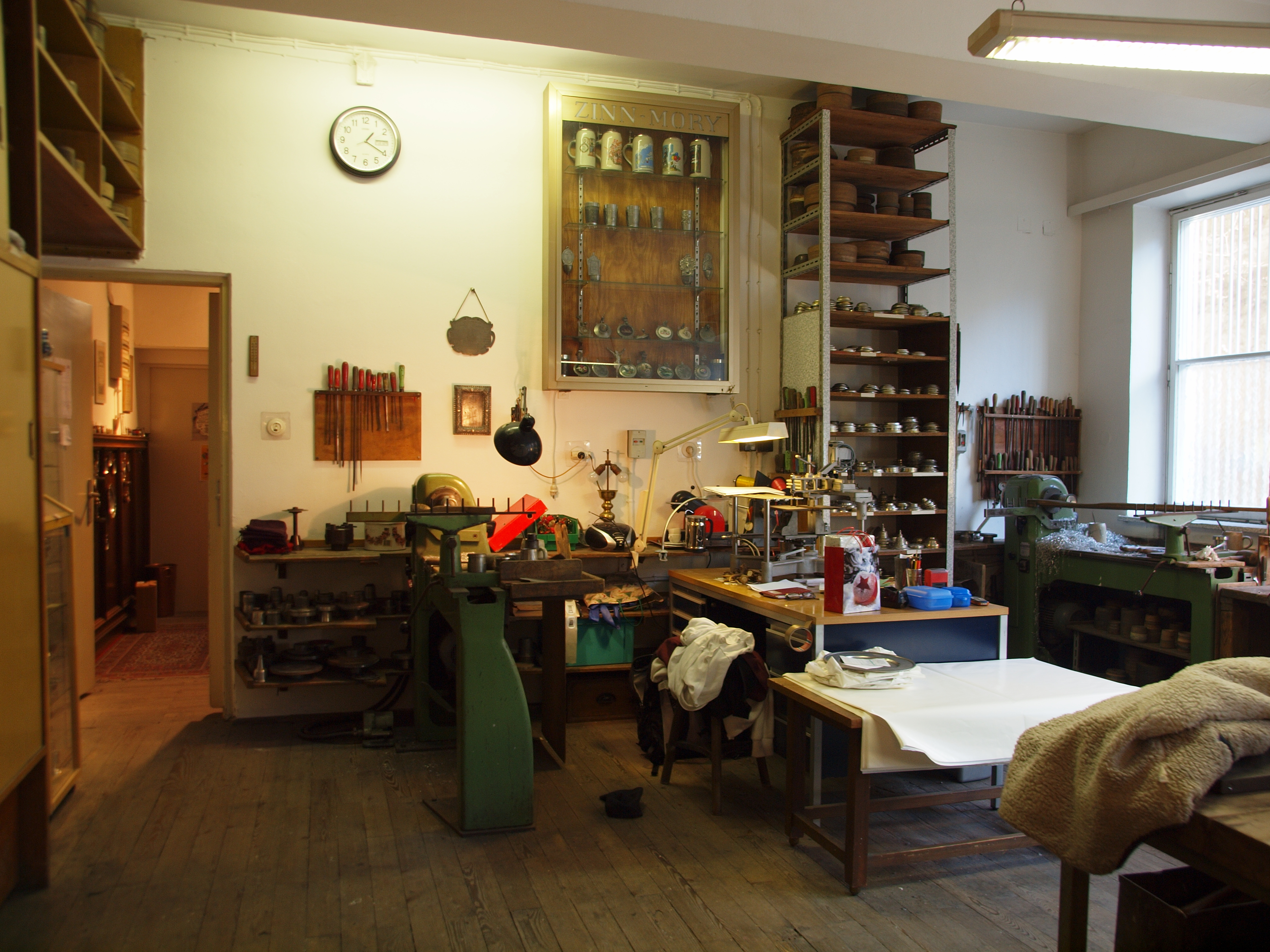 Ludwig Mory Tin pewter